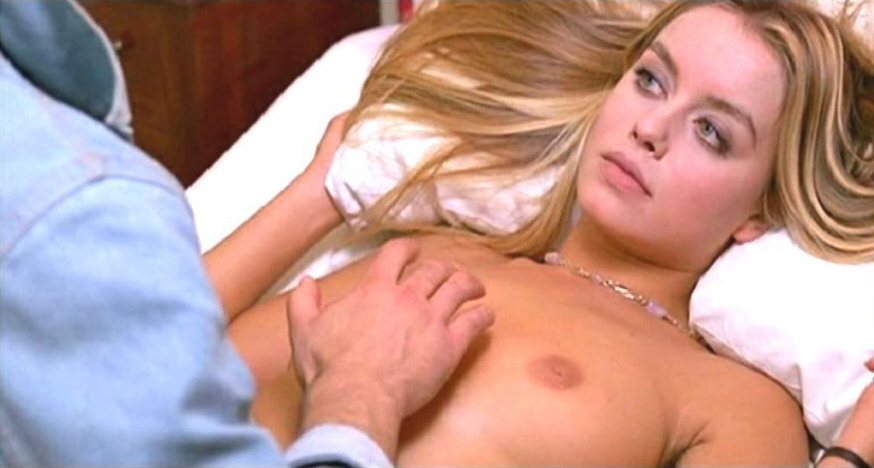 Gloria Guida in Quella età maliziosa (1975).